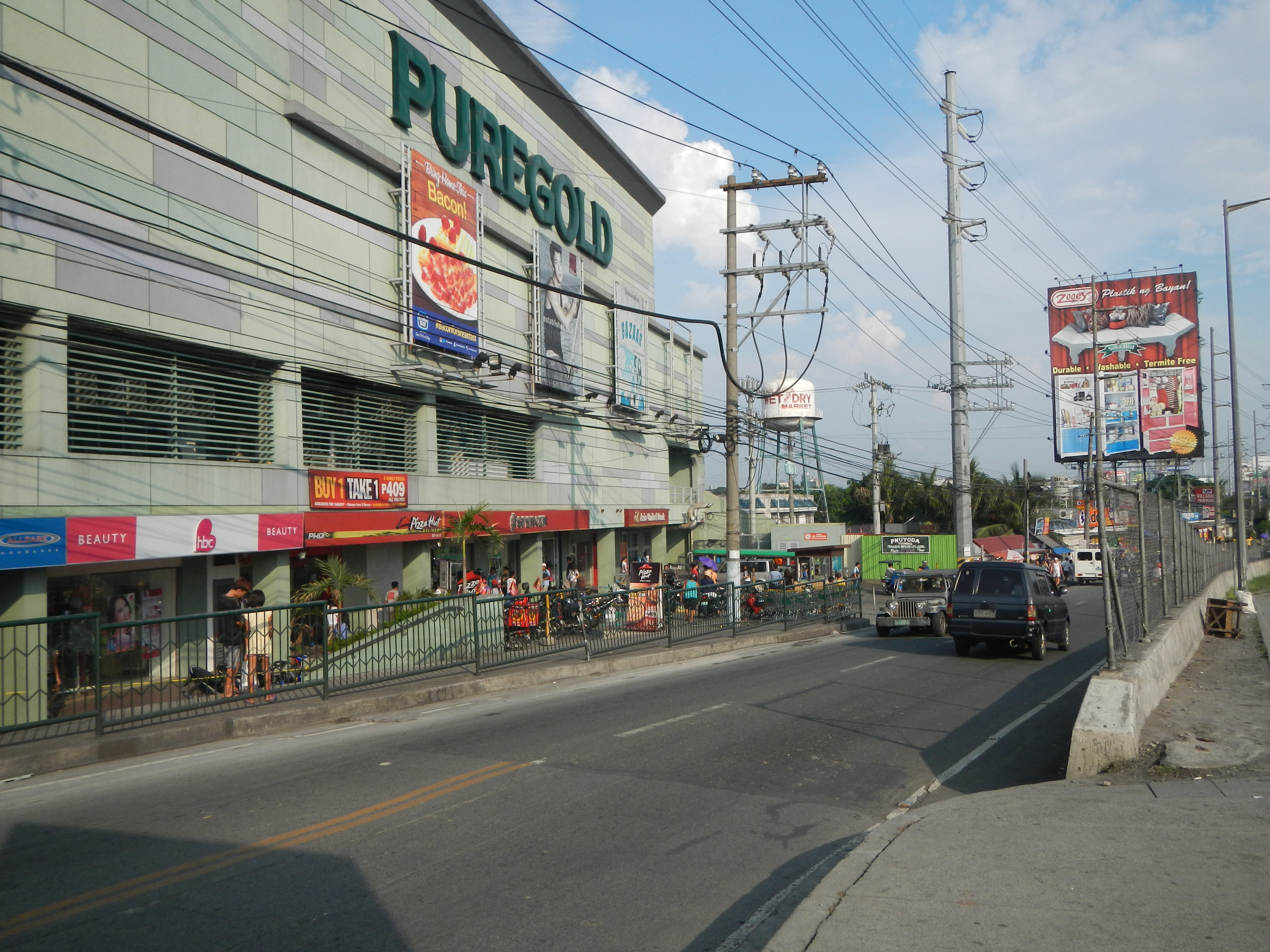 MacArthur Highway (in Metro Manila Intersections connects with North Luzon Expressway, NLEx Barangay Paso de Blas, Valenzuela city, Lying-in Clinic, Puregold (Paso de Blas, Valenzuela City), Puregold Price Club, Inc., gateway to Mapulang Lupa, Valenzuela City).